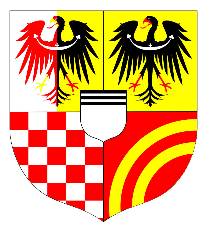 coat of arms of the silesian dynasty of Podebrady